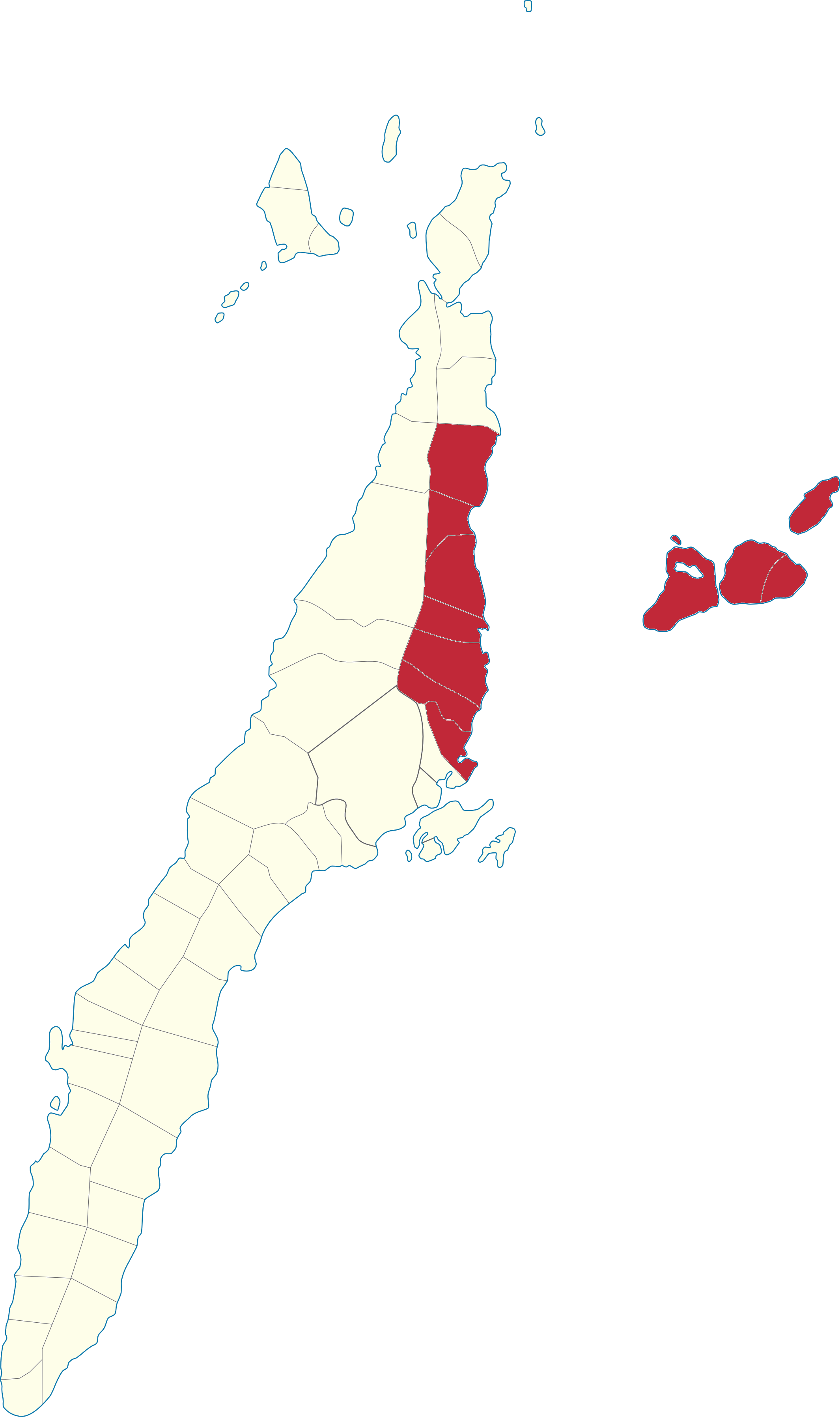 Location of 5th Legislative district of Cebu, Philippines